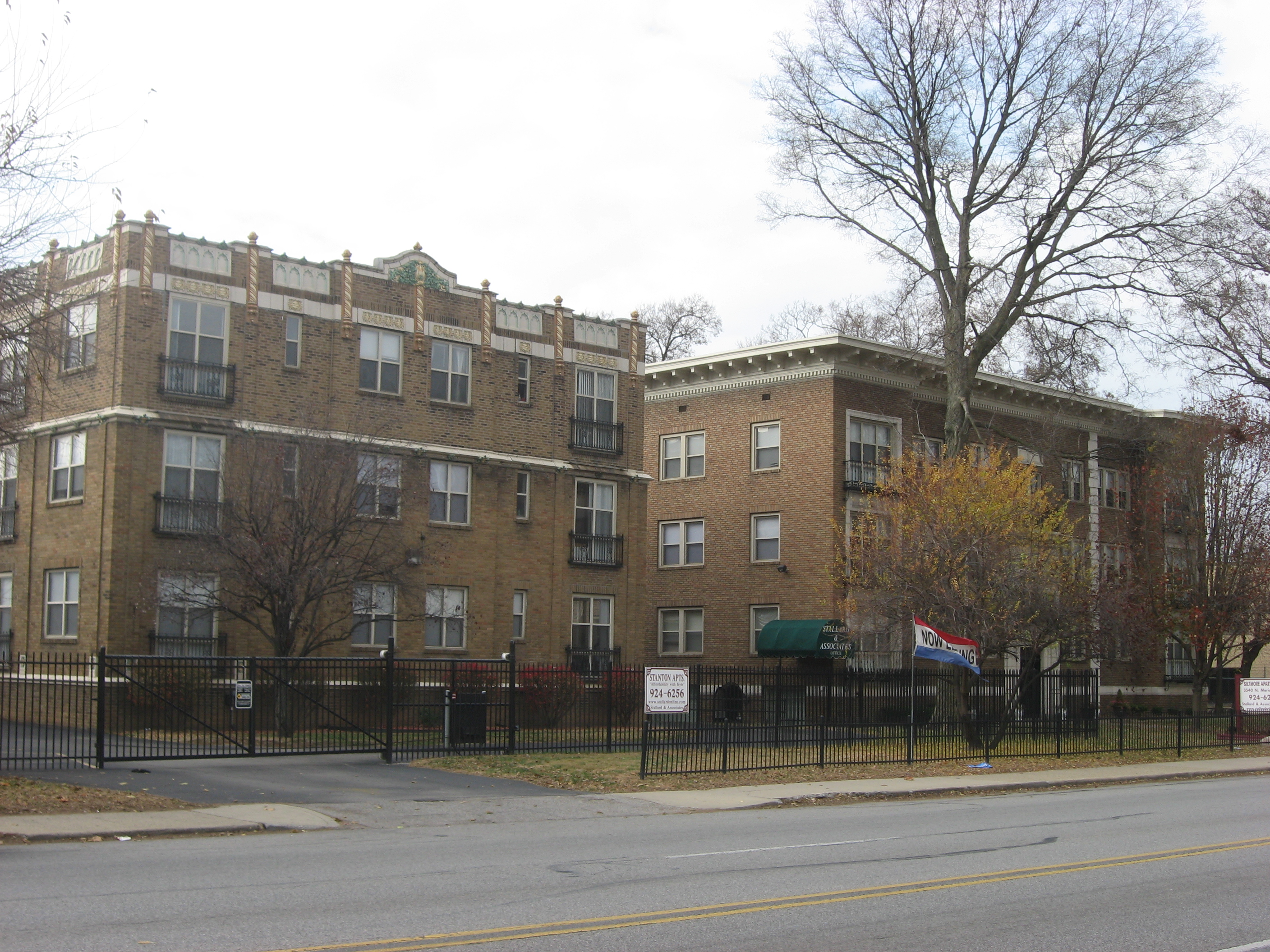 Apartment buildings on the western side of the 3500 block of N. Meridian Street in Indianapolis, Indiana, United States. This block is part of the Shortridge-Meridian Street Apartments Historic District, a historic district that is listed on the National Register of Historic Places.